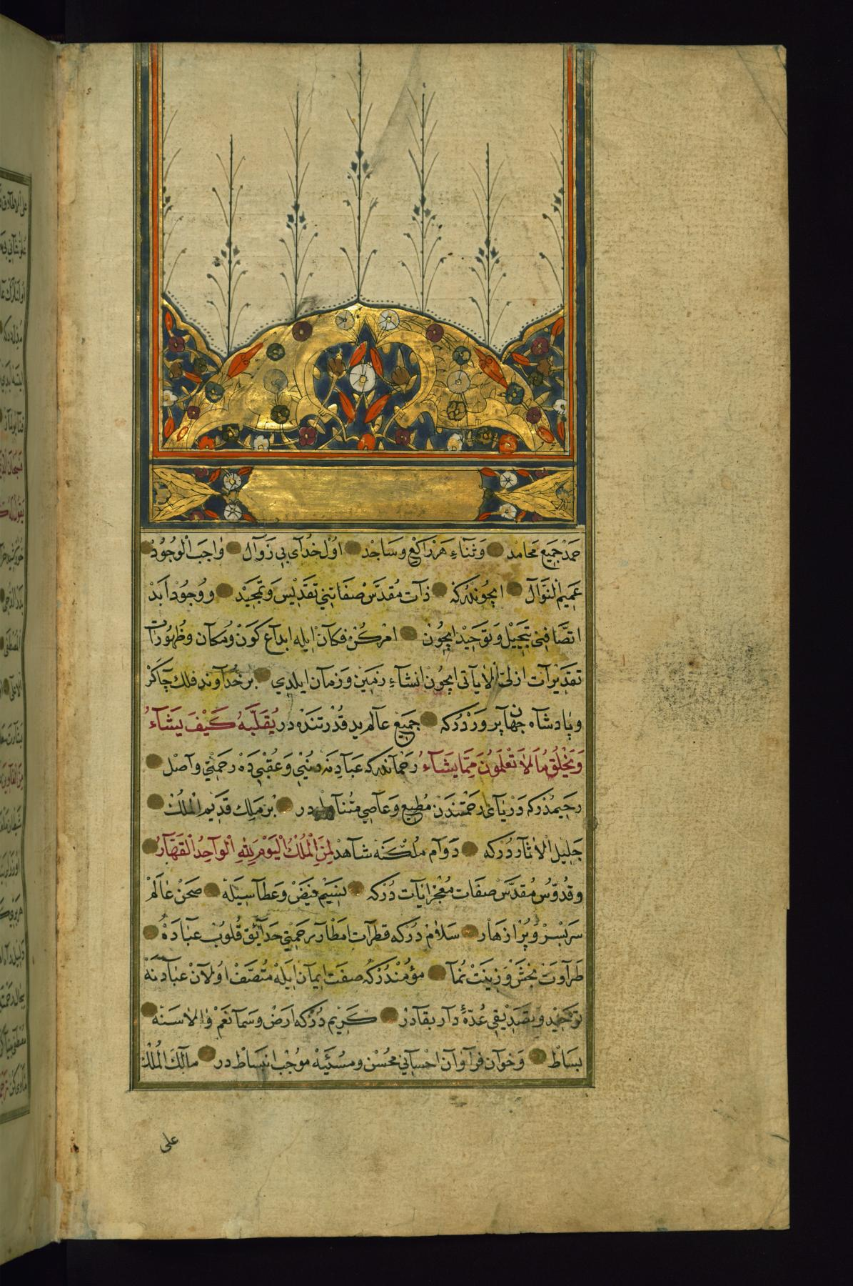 This folio from Walters manuscript W.659 is an incipit page with an illuminated headpiece.